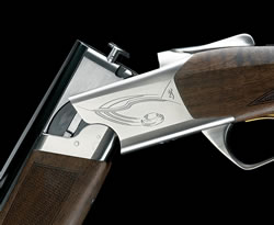 Closeup view of Browning Cynergy Monolock hinge design.